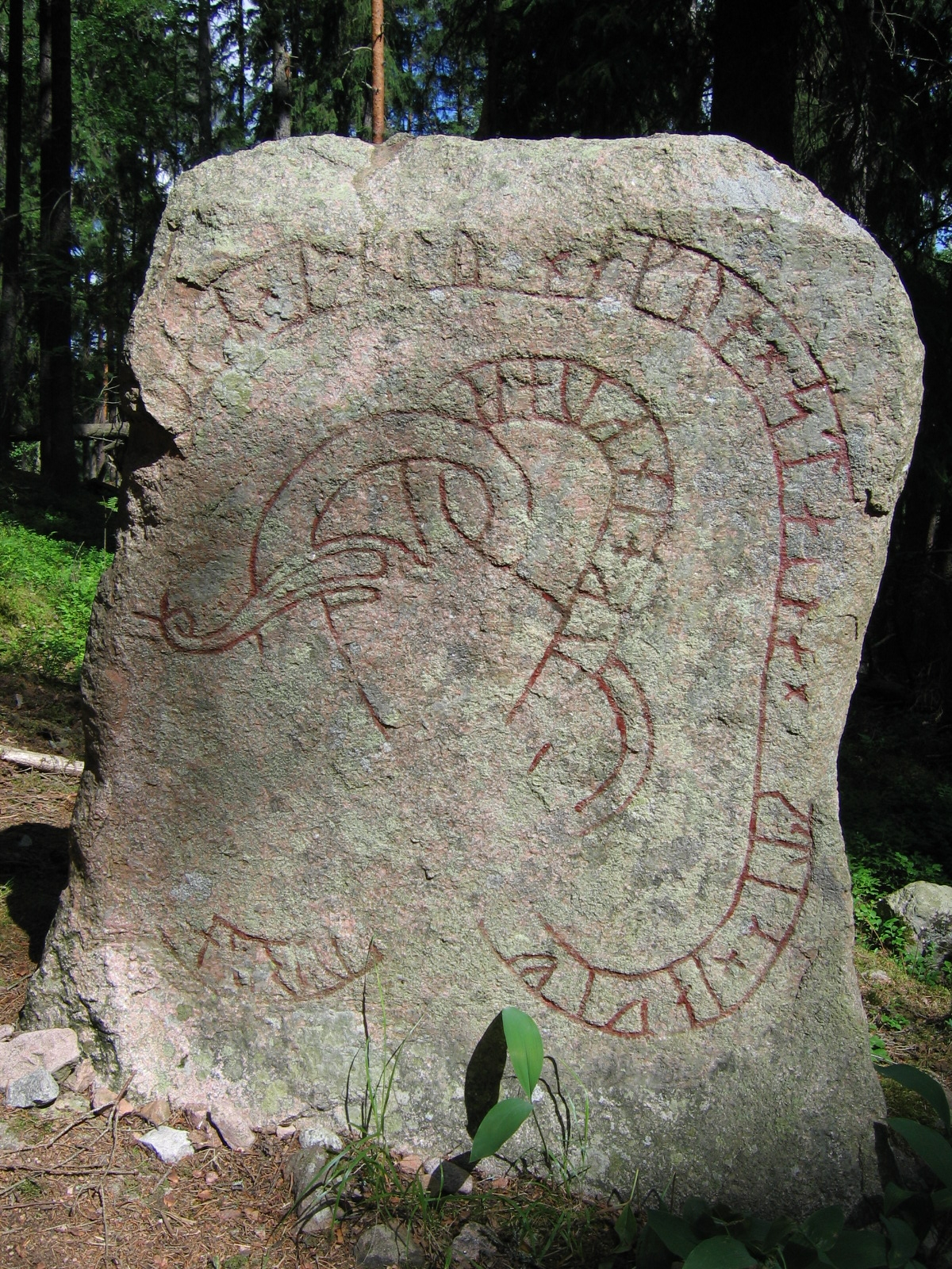 Runestone U 147 in Täby.